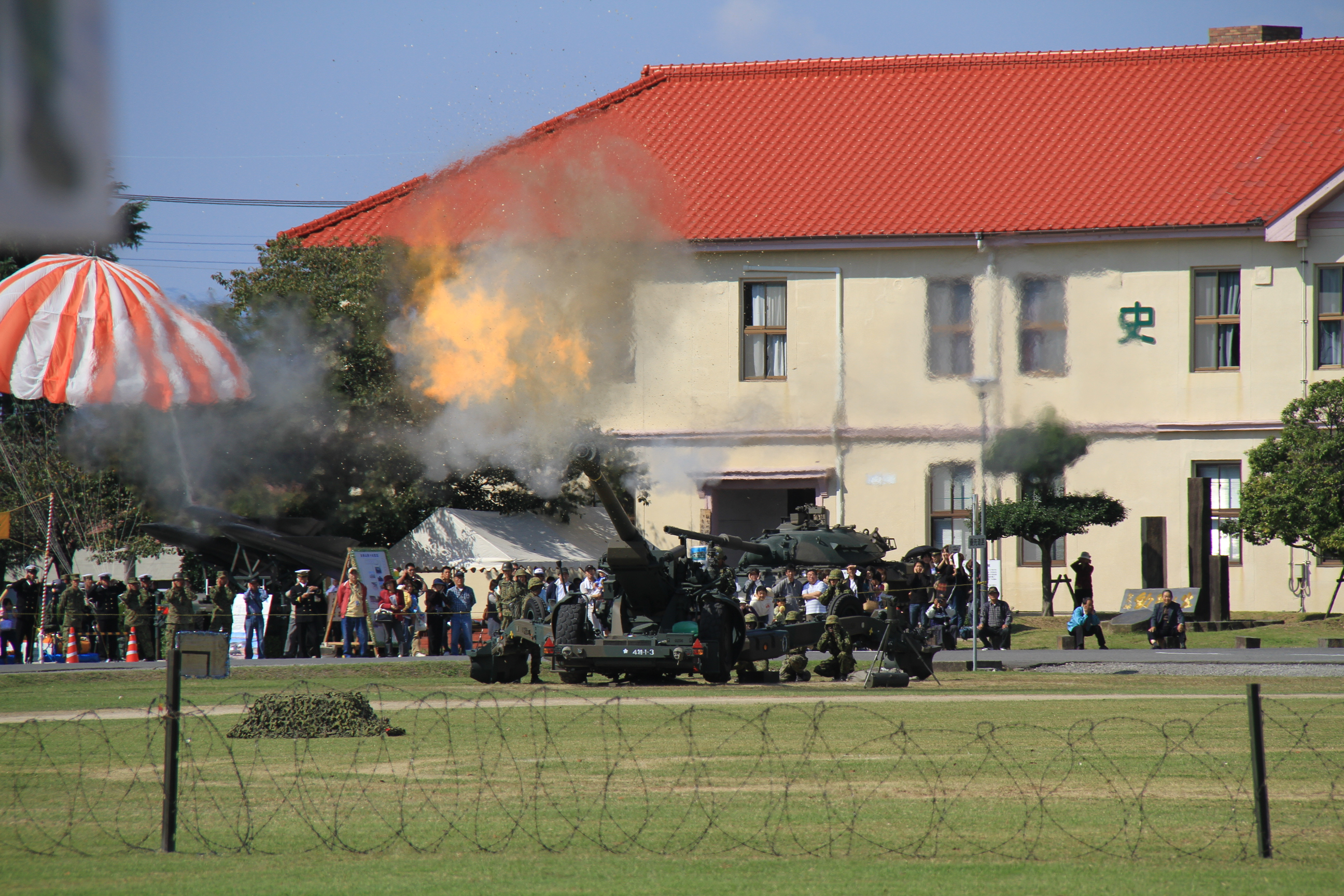 FH70 fired at Omura parade in Nagasaki Prefecture. This is nice timing for fire.